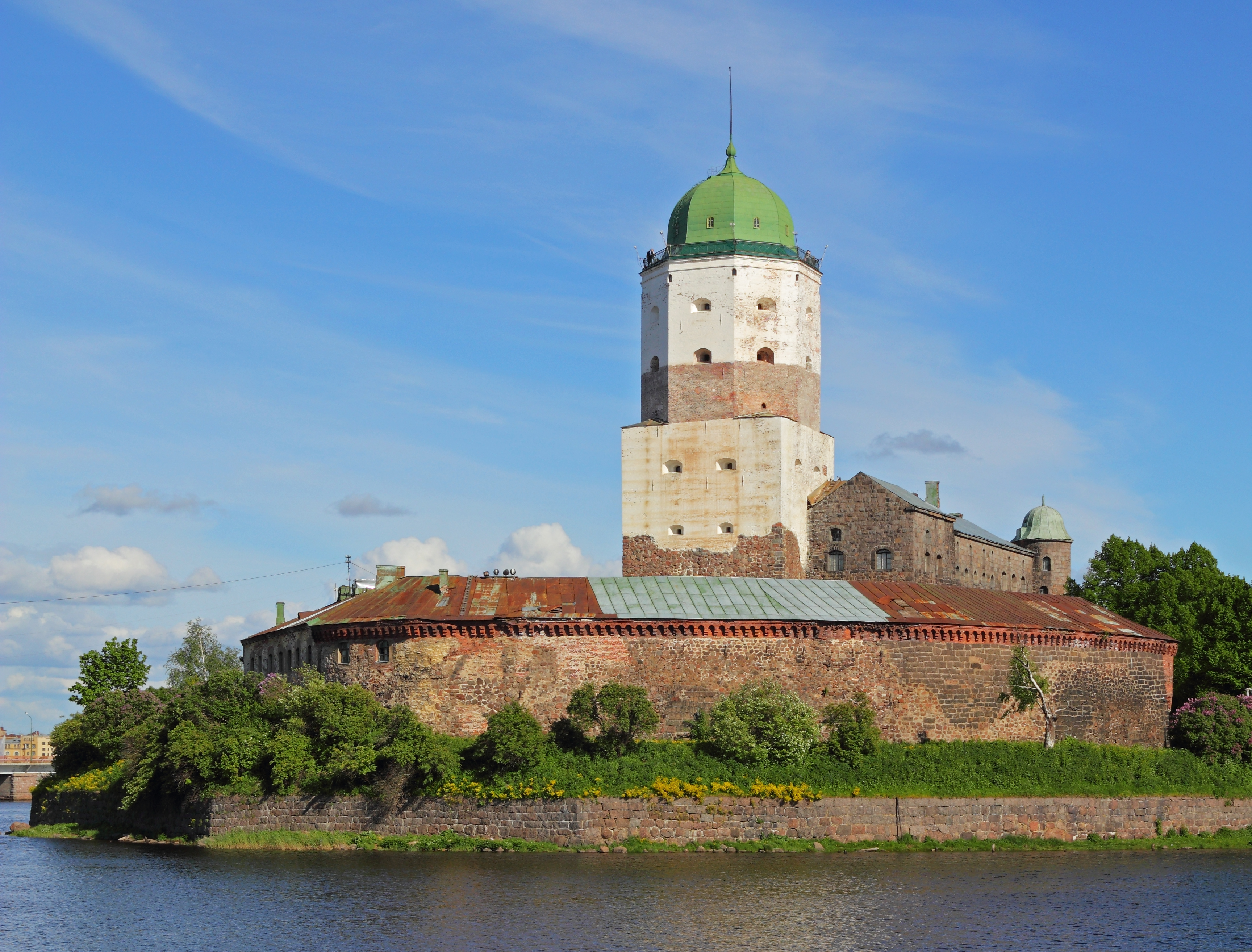 Vyborg (Viipuri), Leningrad Oblast, Russia. Views of the Vyborg Castle.